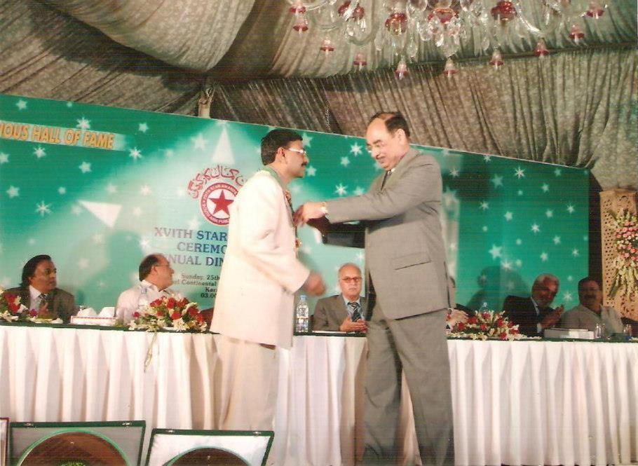 Gen Javed Ashraf Qazi awarding South Asia Millenium Gold Medal